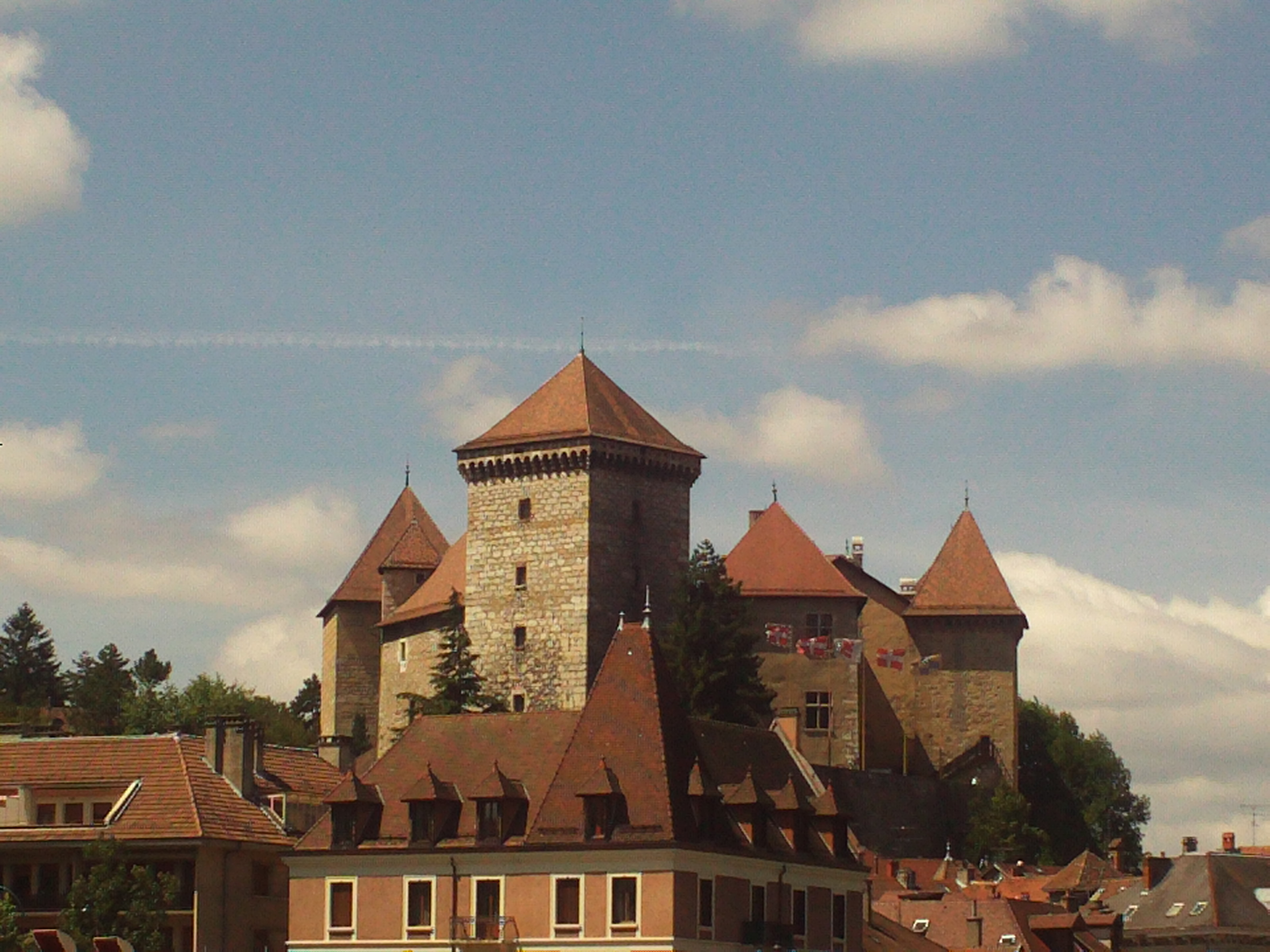 Château de Annecy. Annecy castle in Annecy, France.